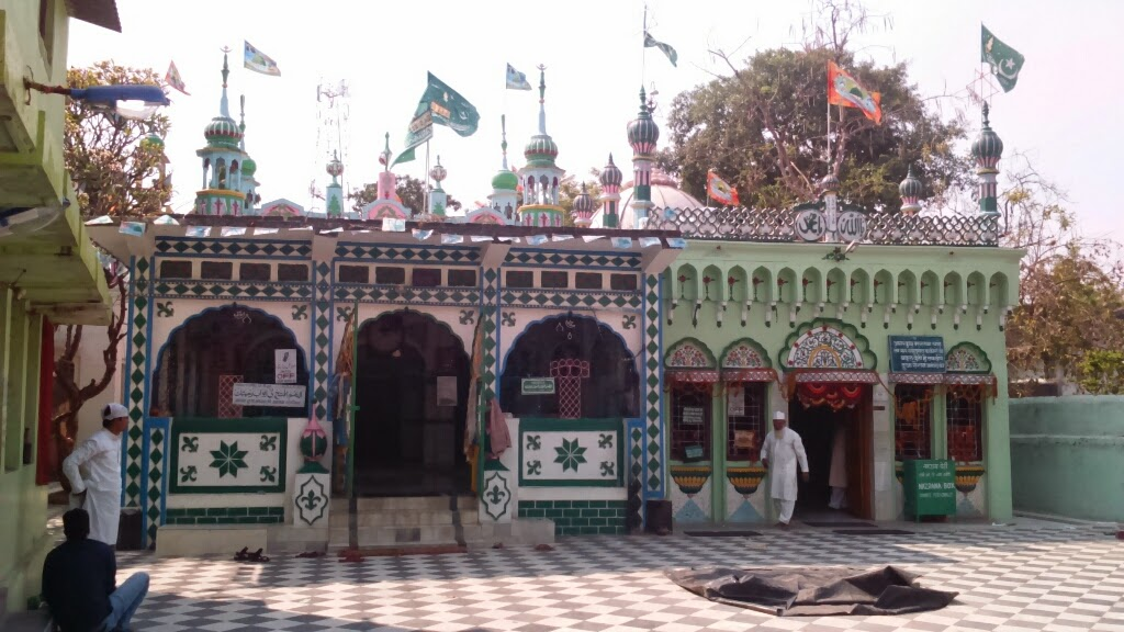 Dargah Hazrat Tarbha Waale Baba